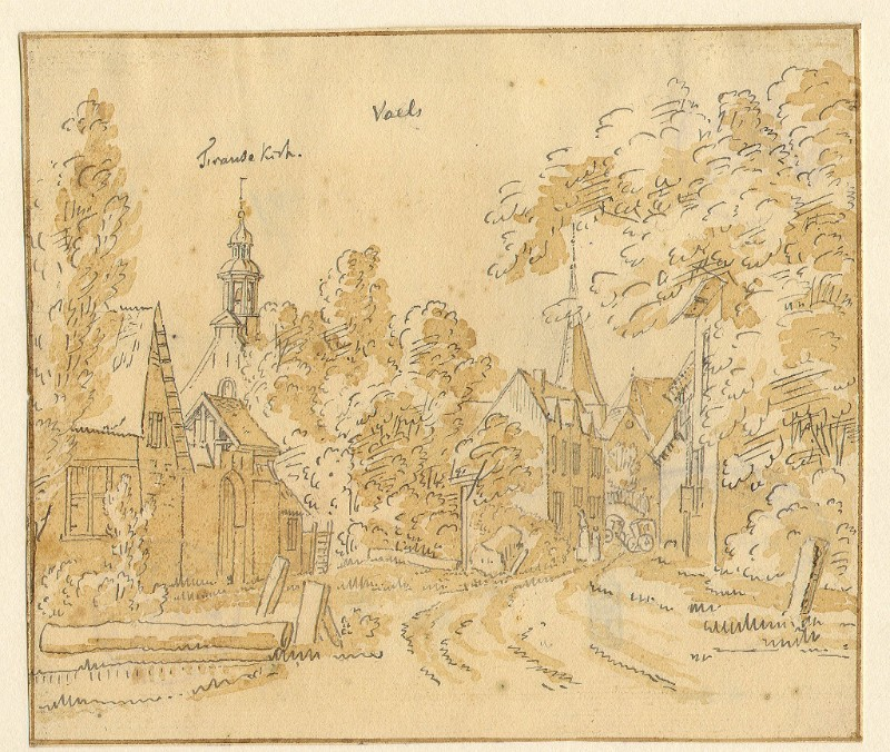 View of Vaals, now in the Netherlands, around 1700. In the foreground the Aachen-Vaals border. To the left the Walloon Church ("French Church"). In the background the spire of the Roman Catholic Church. Ink drawing by unknown artist, ca. 1700.